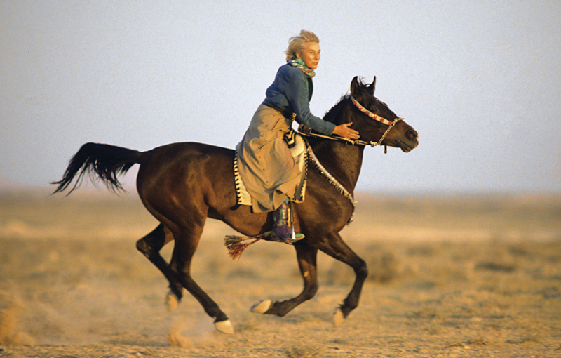 Linda Tellington Jones riding bridleless in Syria